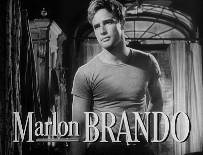 Cropped screenshot of Marlon Brando from the trailer for the film A Streetcar Named Desire (1951